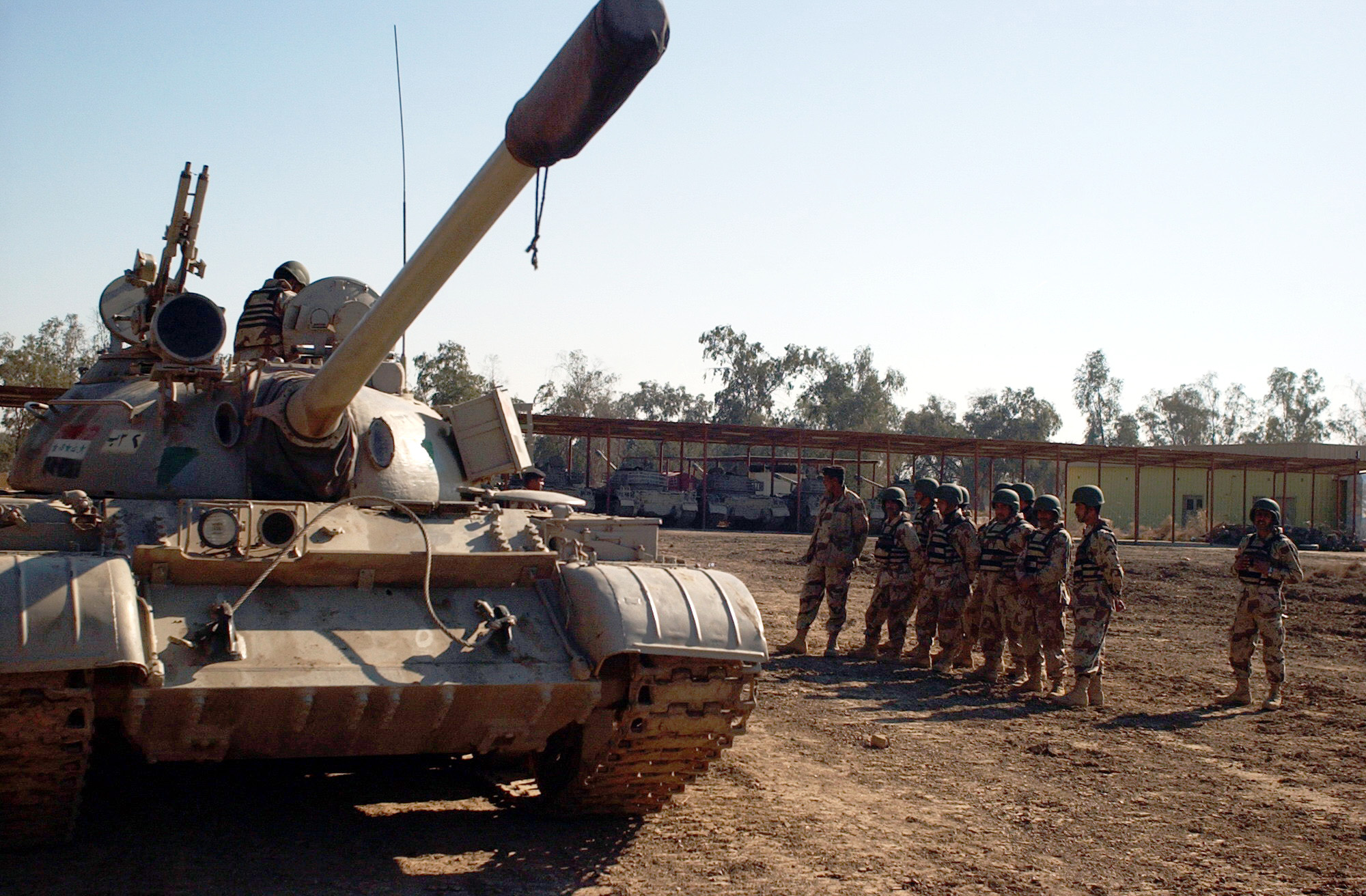 Iraqi Soldiers from the 3rd Battalion, 3rd Brigade, 9th Iraqi Army Division, many of whom are recent basic training graduates, practice crew evacuation and roll over drills during the tank driving portion of a round robin exercise at Camp Taji, Iraq on January 24, 2007. The tank in the foreground is an Iraqi T-55 main battle tank.